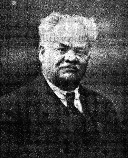 Gheorghe Bogdan-Duică, Romanian literary critic